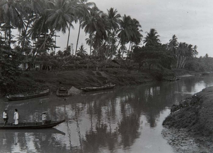 The 'Mookervaart' near Tan Liok Tiauw's rooftile factory